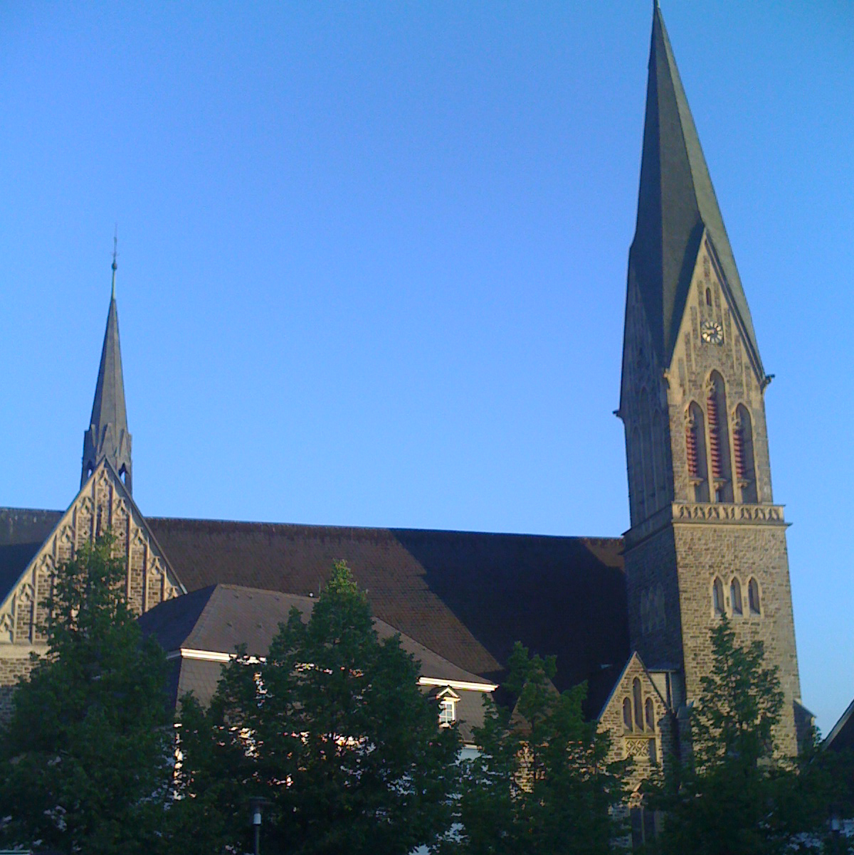 Martinus Kirche in Olpe